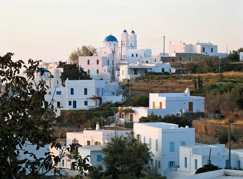 The village of Ano Petali, near Artemonas, on the Greek island Sifnos at dawn. Ayos Ioannis church